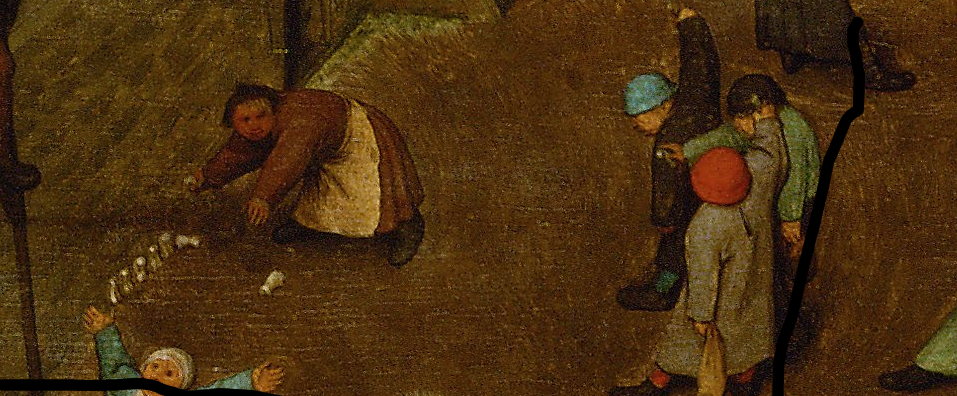 Detail from File:Pieter Bruegel the Elder - Children’s Games - Google Art Project.jpg, showing children playing werpkoot